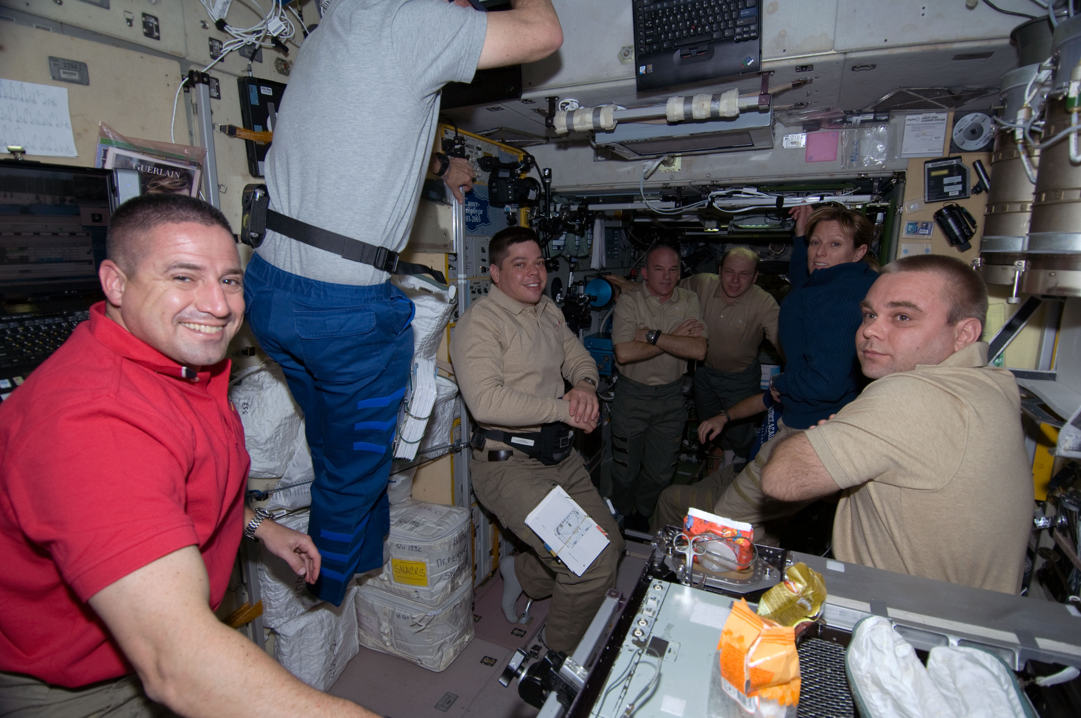 STS-130 and Expedition 22 crew members are pictured shortly after space shuttle Endeavour and the International Space Station docked in space and the hatches were opened. Pictured (clockwise) are NASA astronauts George Zamka (left), STS-130 commander; Stephen Robinson and Robert Behnken, both STS-130 mission specialists; NASA astronaut Jeffrey Williams, Expedition 22 commander; Russian cosmonaut Oleg Kotov, Expedition 22 flight engineer; NASA astronaut Kathryn Hire, STS-130 mission specialist; and Russian cosmonaut Maxim Suraev, Expedition 22 flight engineer.